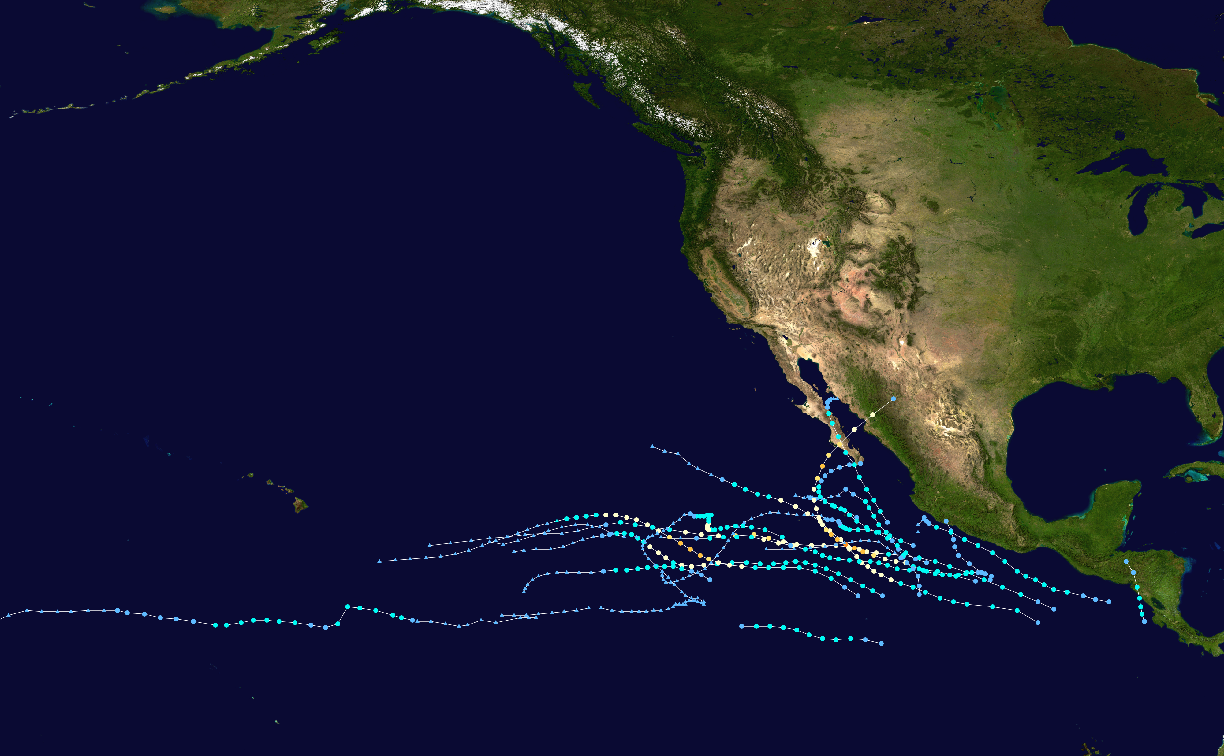 This map shows the tracks of all tropical cyclones in the 2008 Pacific hurricane season. The points show the location of each storm at 6-hour intervals. The colour represents the storm's maximum sustained wind speeds as classified in the Saffir-Simpson Hurricane Scale (see below), and the shape of the data points represent the type of the storm. Saffir–Simpson hurricane wind scale Tropical depression≤38 mph≤62 km/h Category 3111–129 mph178–208 km/h Tropical storm39–73 mph63–118 km/h Category 4130–156 mph209–251 km/h Category 174–95 mph119–153 km/h Category 5≥157 mph≥252 km/h Category 296–110 mph154–177 km/h Unknown Storm typeTropical cycloneSubtropical cycloneExtratropical cyclone / Remnant low / Tropical disturbance